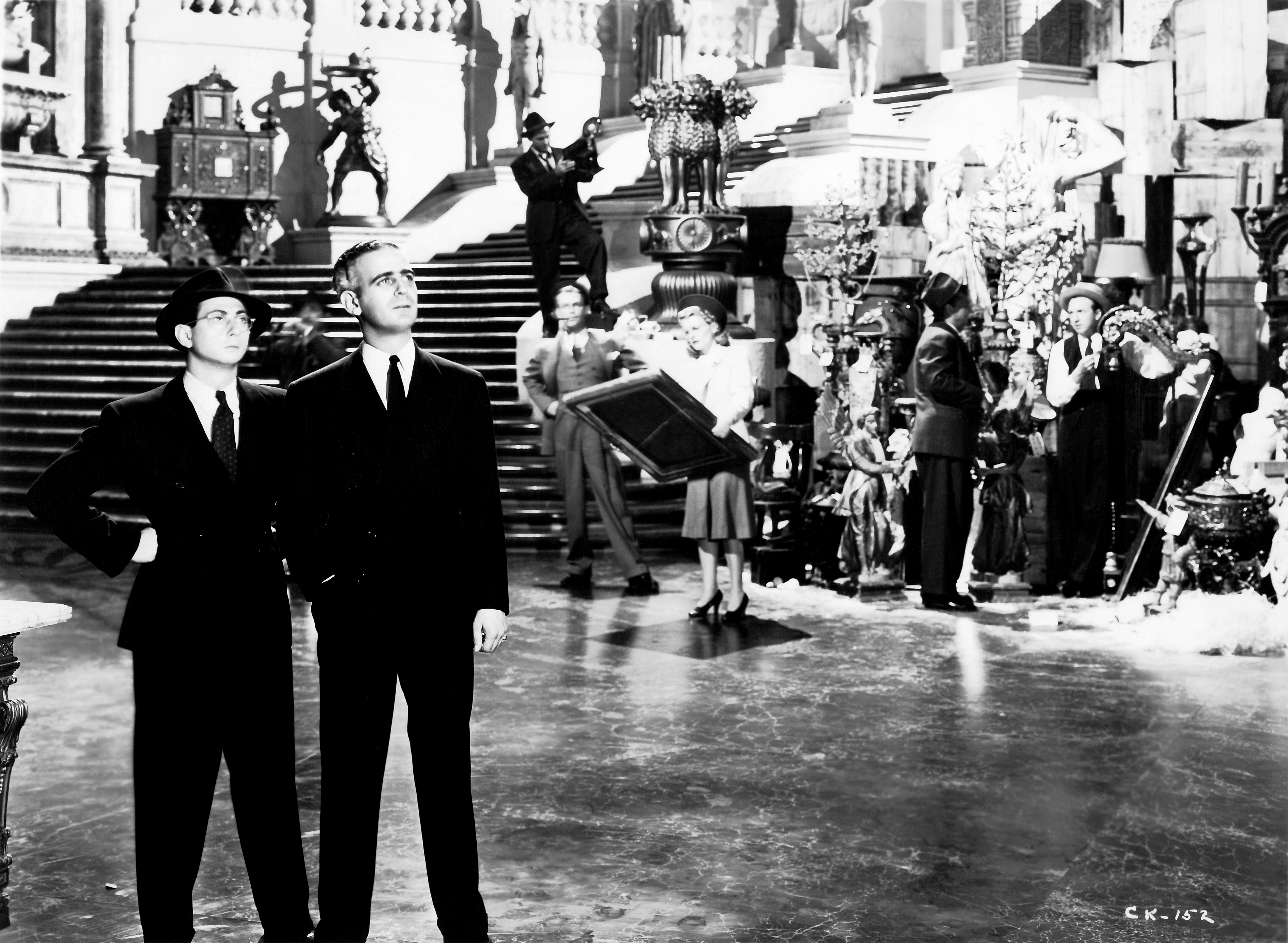 Promotional still for the 1941 film, Citizen Kane Image is marked CK-152 at lower right